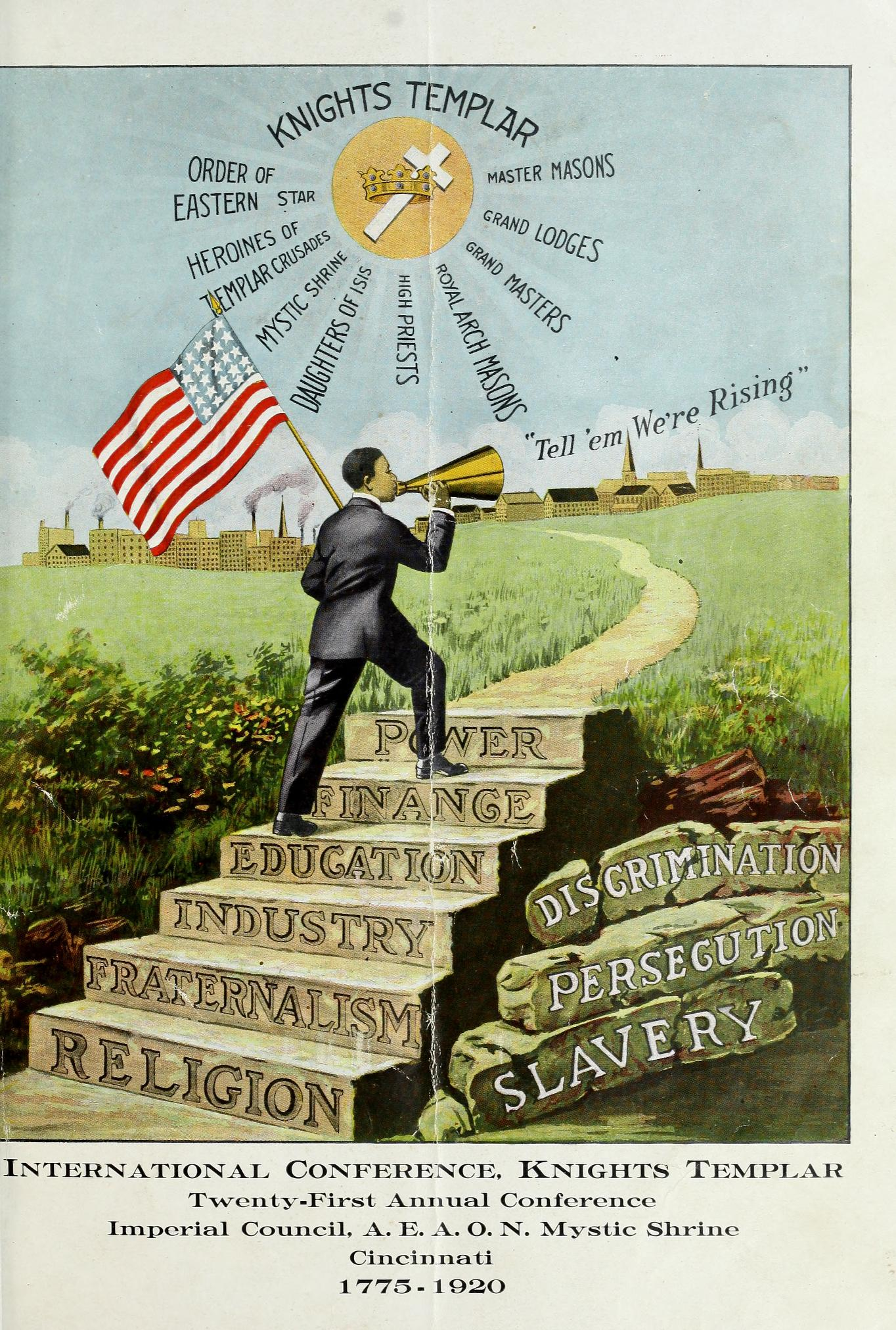 Image shows African-American mason holding American flag and trumpet captioned "Tell em we're rising" as he advances up steps labeled Religion, Fraternalism, Education etc toward a bright scene of farmland and industry. The names of various P. H. A. Masonic orders are captioned as rays of a sun-like logo of the Knights Templar. Below are darker stones labels slavery, persecution and discrimination.